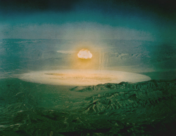 Operation Upshot-Knothole - Encore shot.